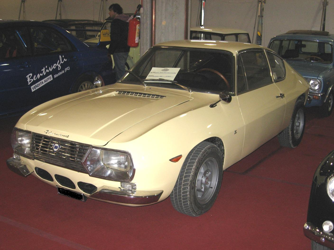 Subject:Lancia Fulvia Sport 1.3 Zagato - 1967 Author:Luc106 Date:November 24th, 2007 Event:Markè Retrò 2007 Place/Country:Cesena (FC), Italy I release all rights in the public domain.